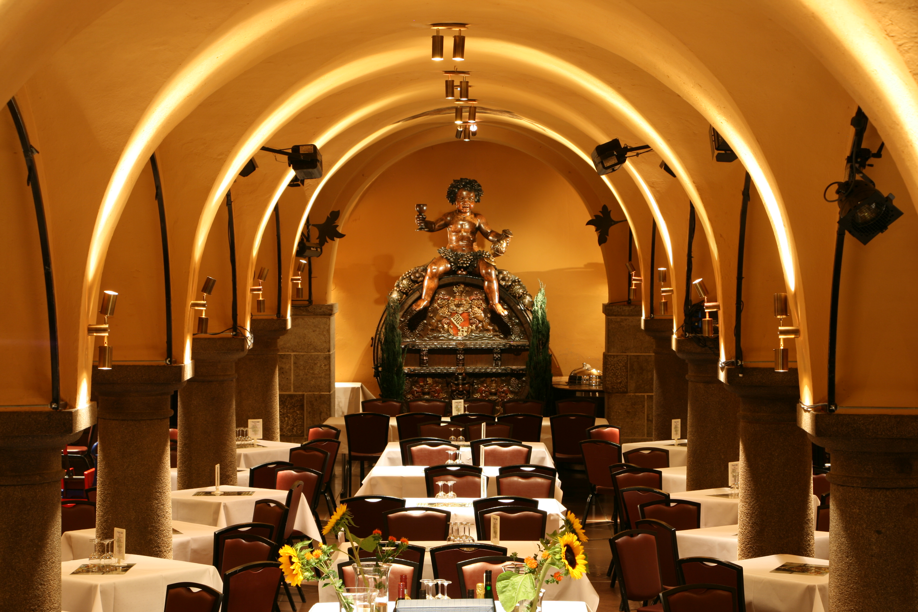 The Bacchuskeller (Bacchus cellar) of the Ratskeller in Bremen, Germany